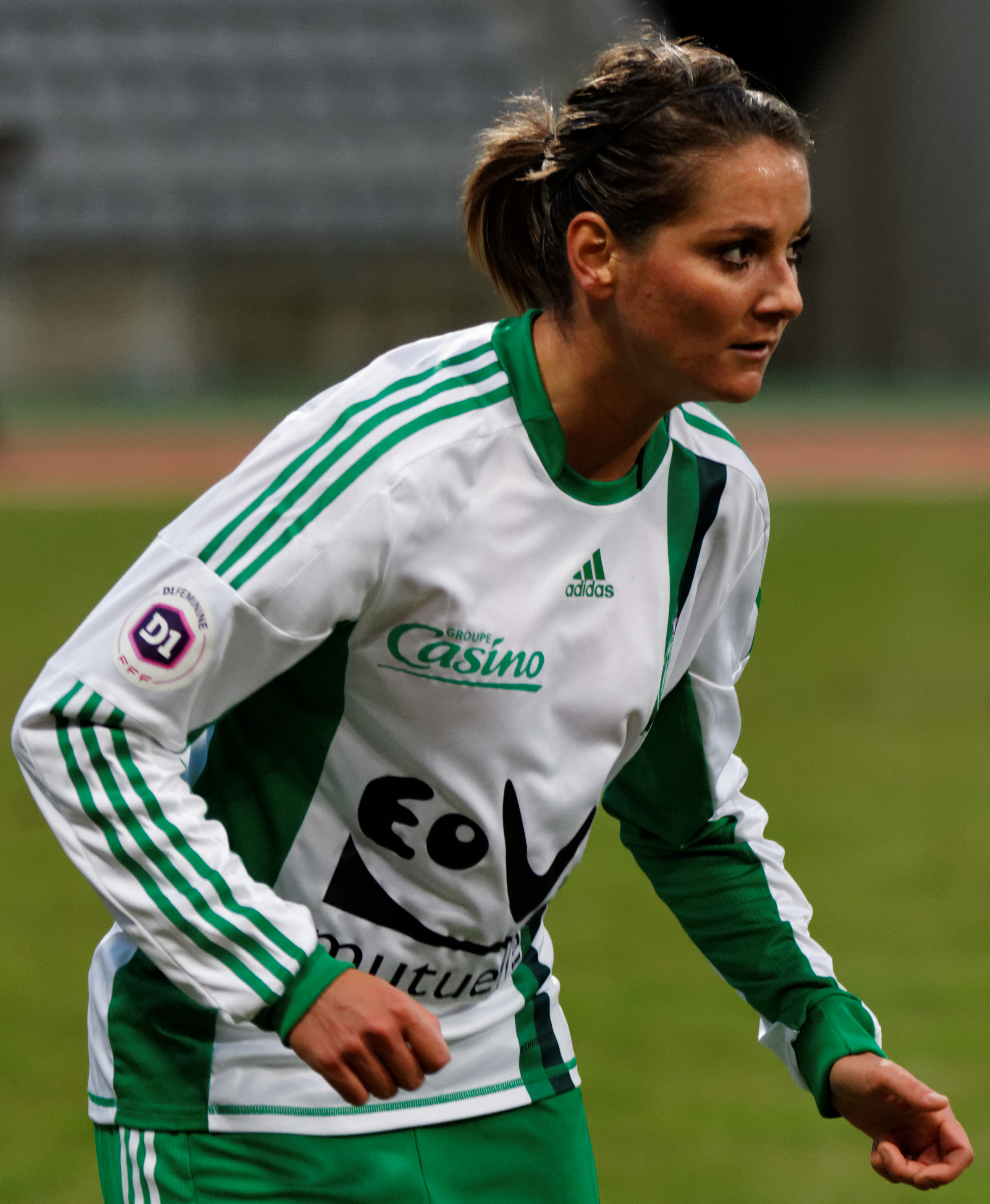 PSG-AS Saint-Étienne, december 16th, 2012.